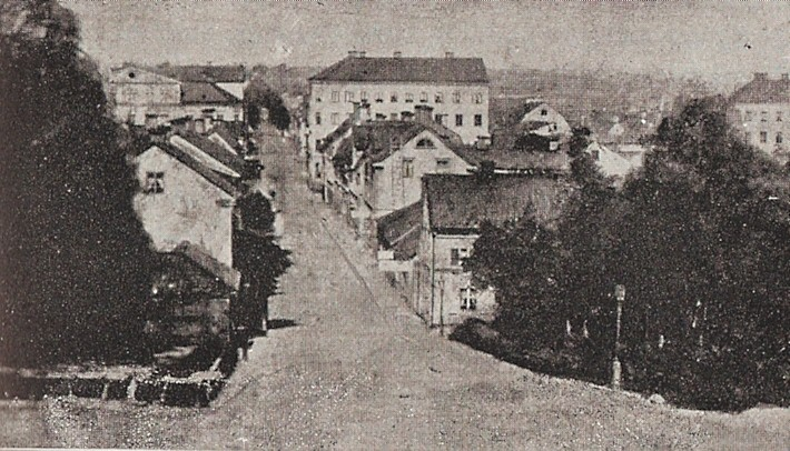 Kalmar nation Uppsala 1871-74 Fist local to the right, local at Old inn